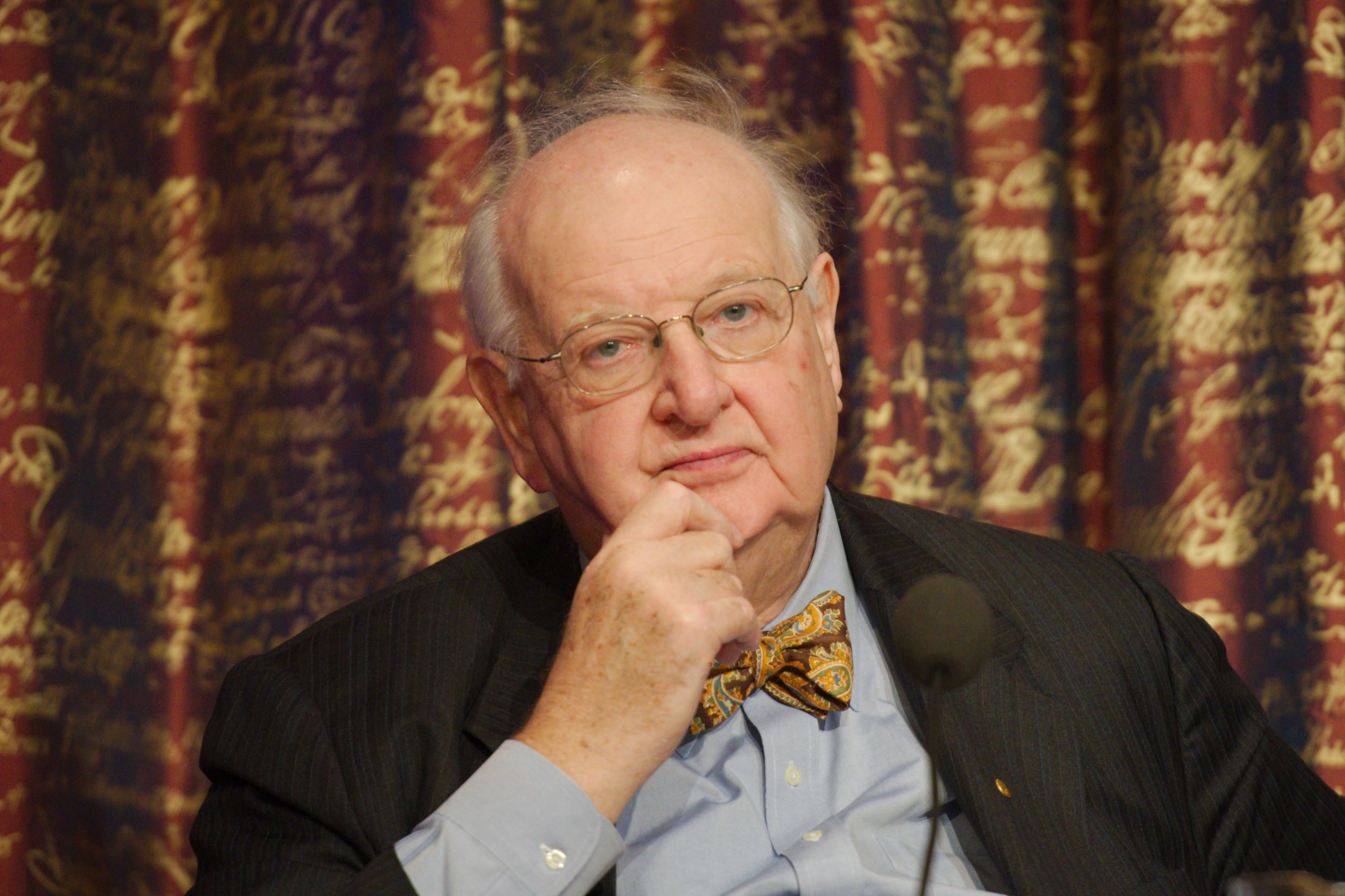 Angus Deaton at a press conference at the Royal Swedish Academy of Sciences